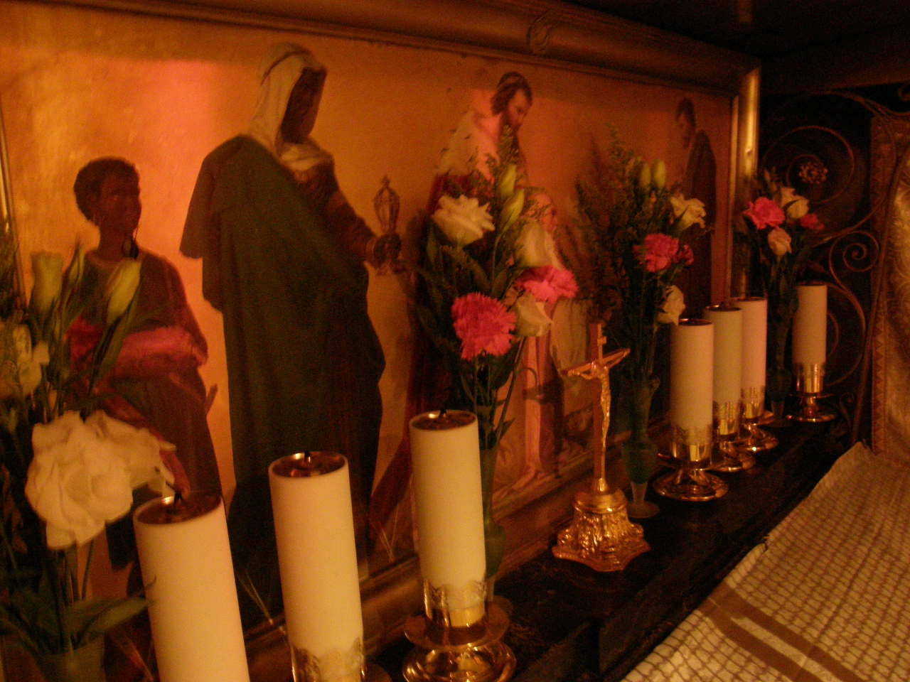 Grotto of the Nativity. Catholic Altar. Bethlehem.